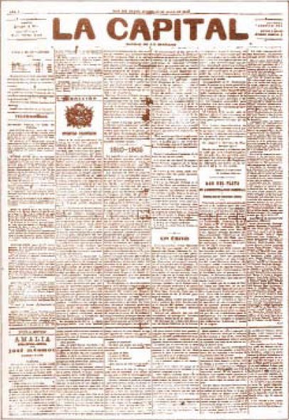 Cover to Mar del Plata's newspaper, La Capital #1.